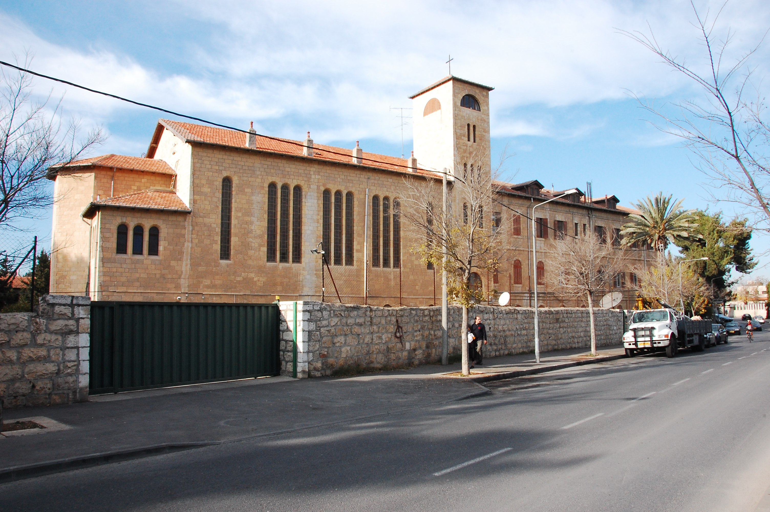 Monastery of Sisters of St. Borromeo, Lloyd George 12, jerusalem